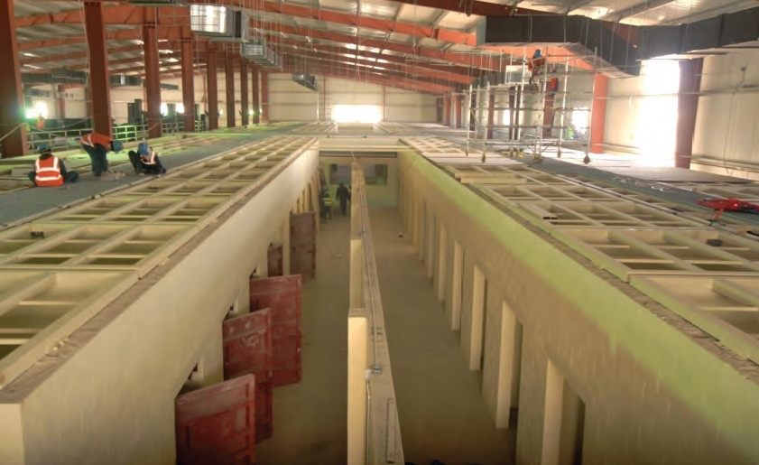 Bagram Theatre Internment Facility includes single cells and communal cells, shown here under construction.